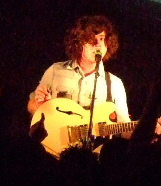 Kyle Falconer of The View